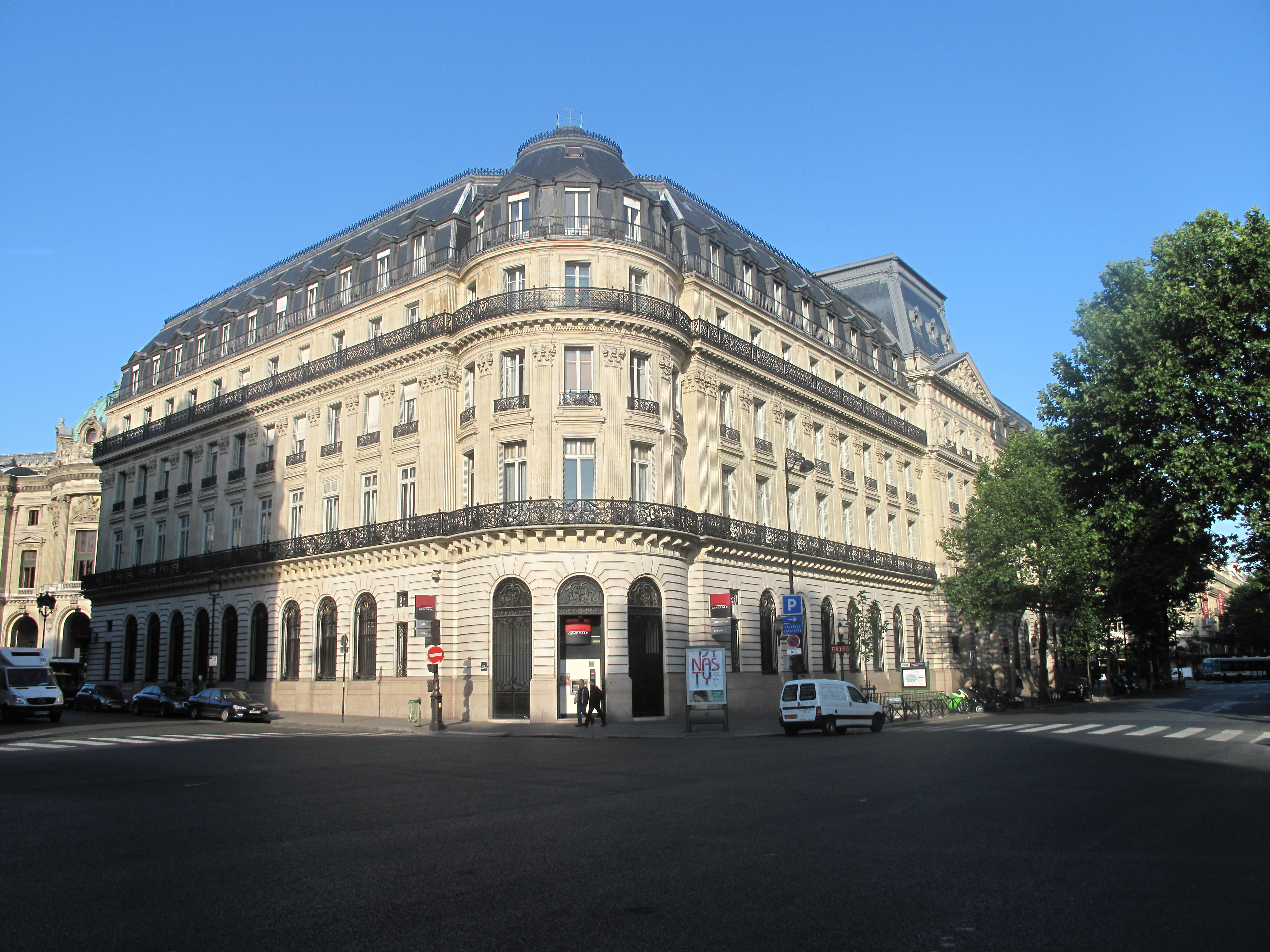 Overview of the buiding of the headquarters of tha Société Générale, boulevard Haussmann in Paris, France